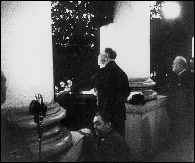 President Franklin D. Roosevelt (standing) and British Prime Minister Winston Churchill (right) speak from the south portico of the White House while lighting the National Community Christmas Tree on December 24, 1941.